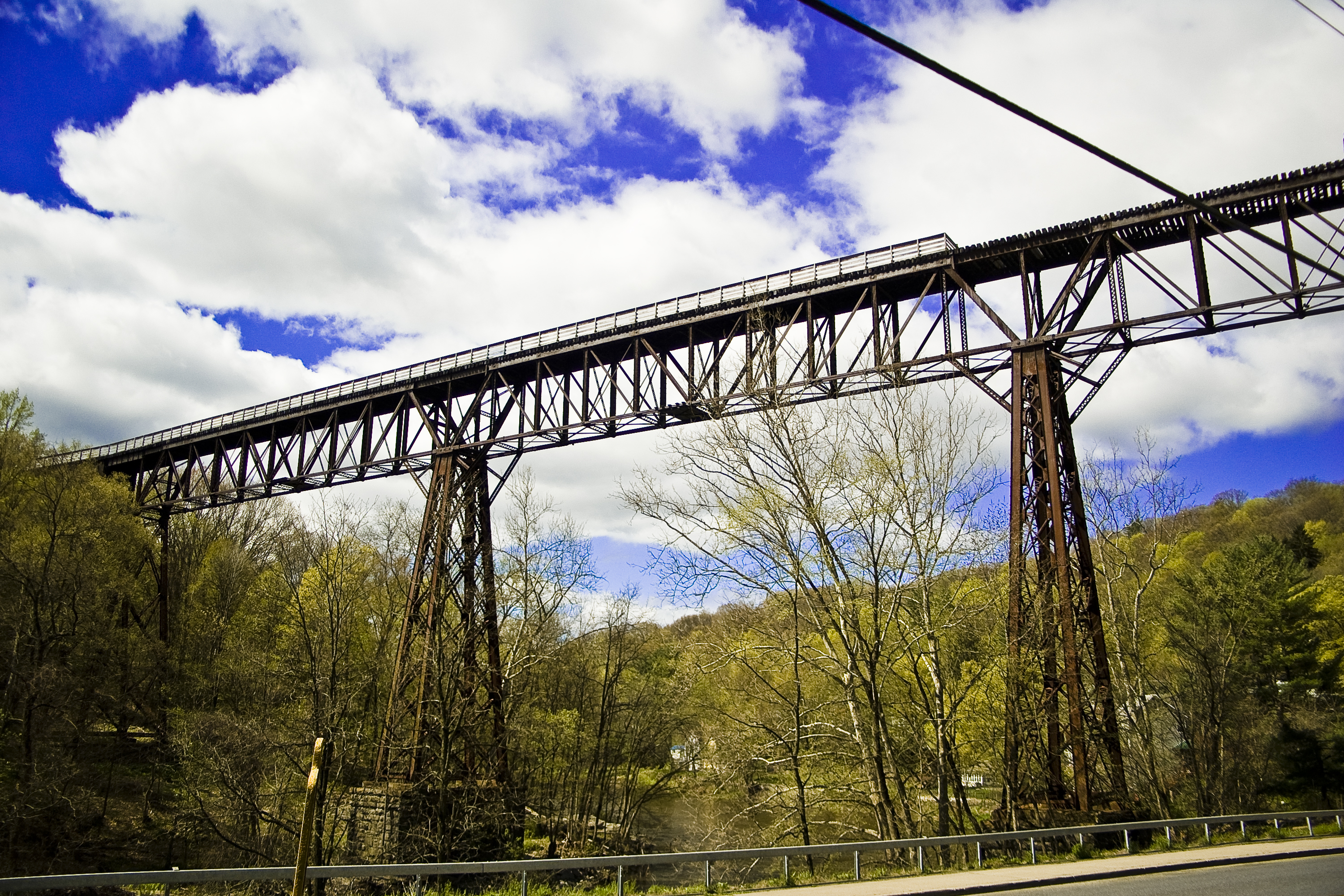 The Rosendale trestle in Rosendale Village, New York, taken in early spring.